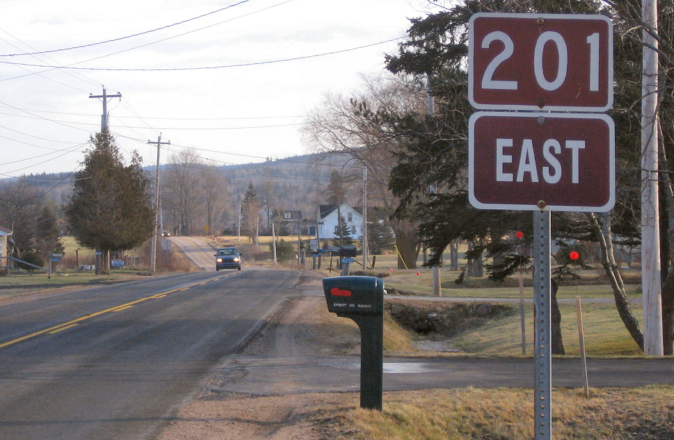 Self-made